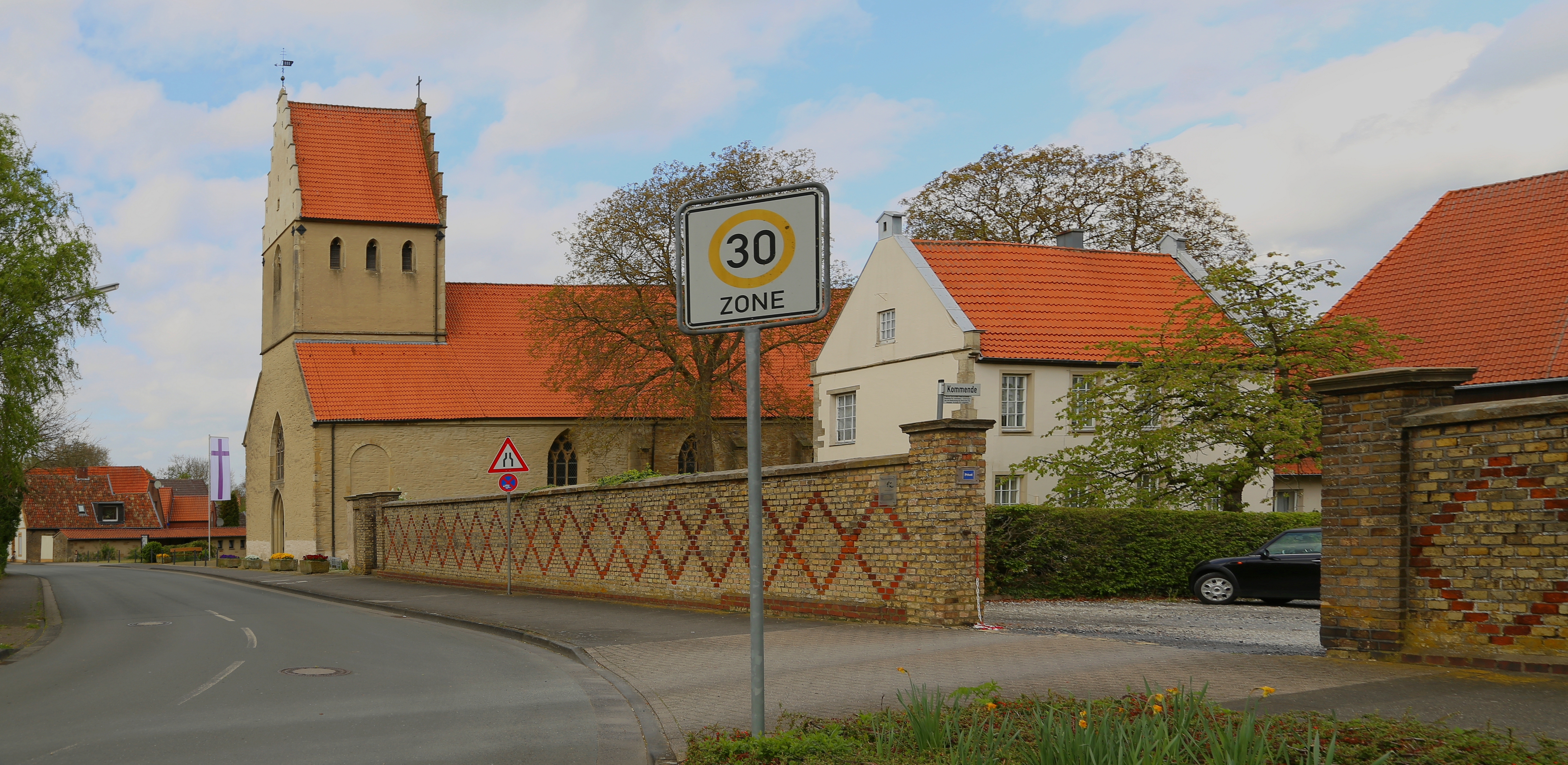 The Protestant Large Church (Große Kirche) and the former Order of Knights of St. John of Jerusalem commandry in Steinfurt-Burgsteinfurt, Kreis Steinfurt, North Rhine-Westphalia, Germany.